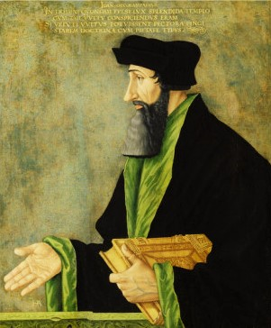 Portrait of Johannes Oecolampadius